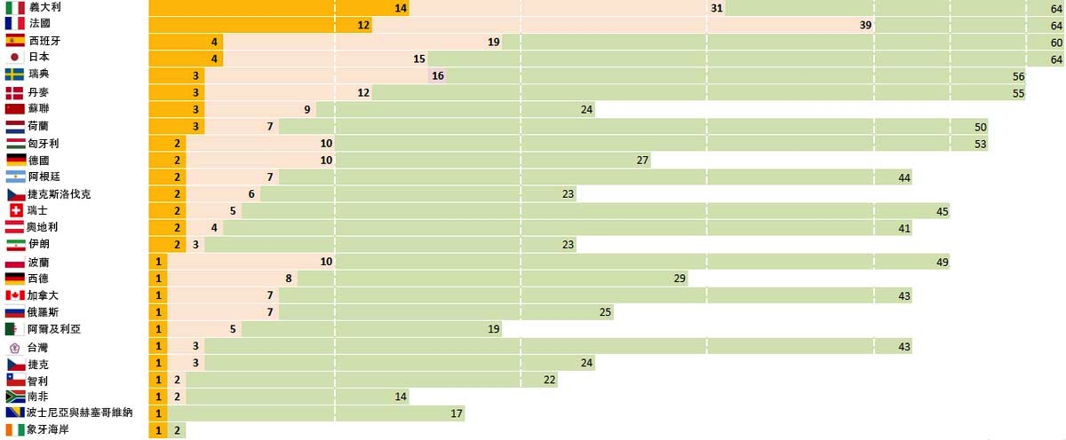 This graph shows countries ordered by number of Academy Award winners and nominees for Best Foreign Language Film